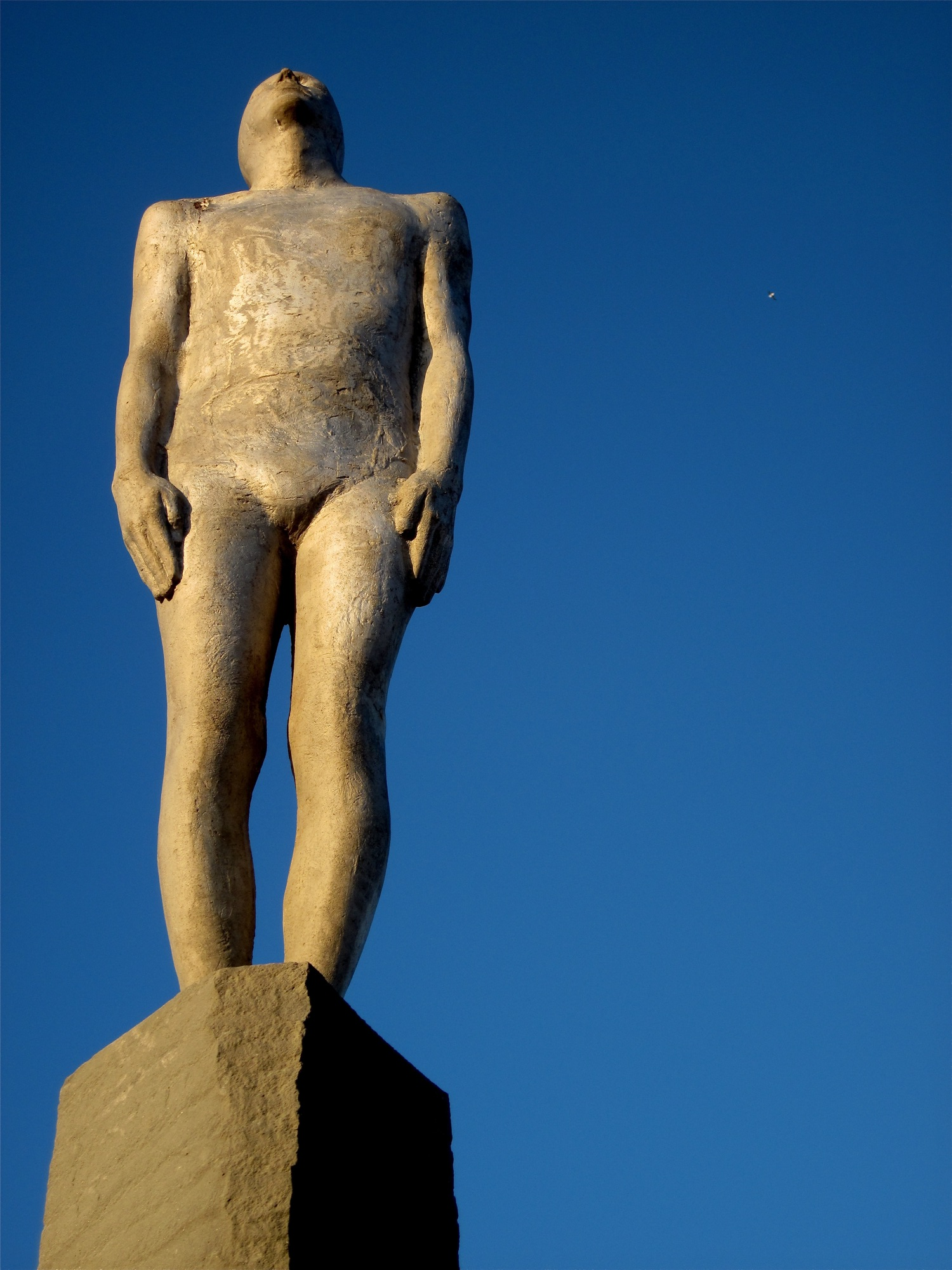 This was taken looking up at a statue on the beach near Vik but it seemed more interesting at this angle.